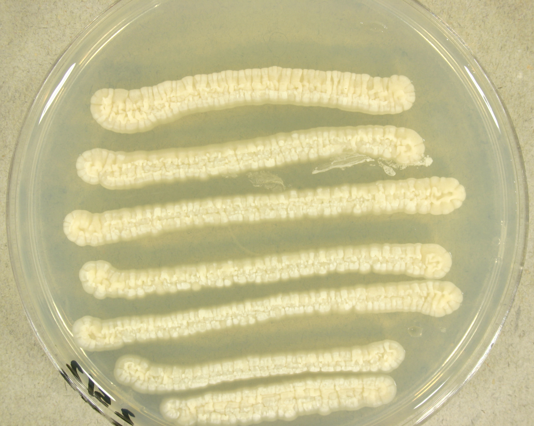 Trichosporon asteriodes UAMH 10278 grown on Potato Dextrose Agar at 25 C for 11 days